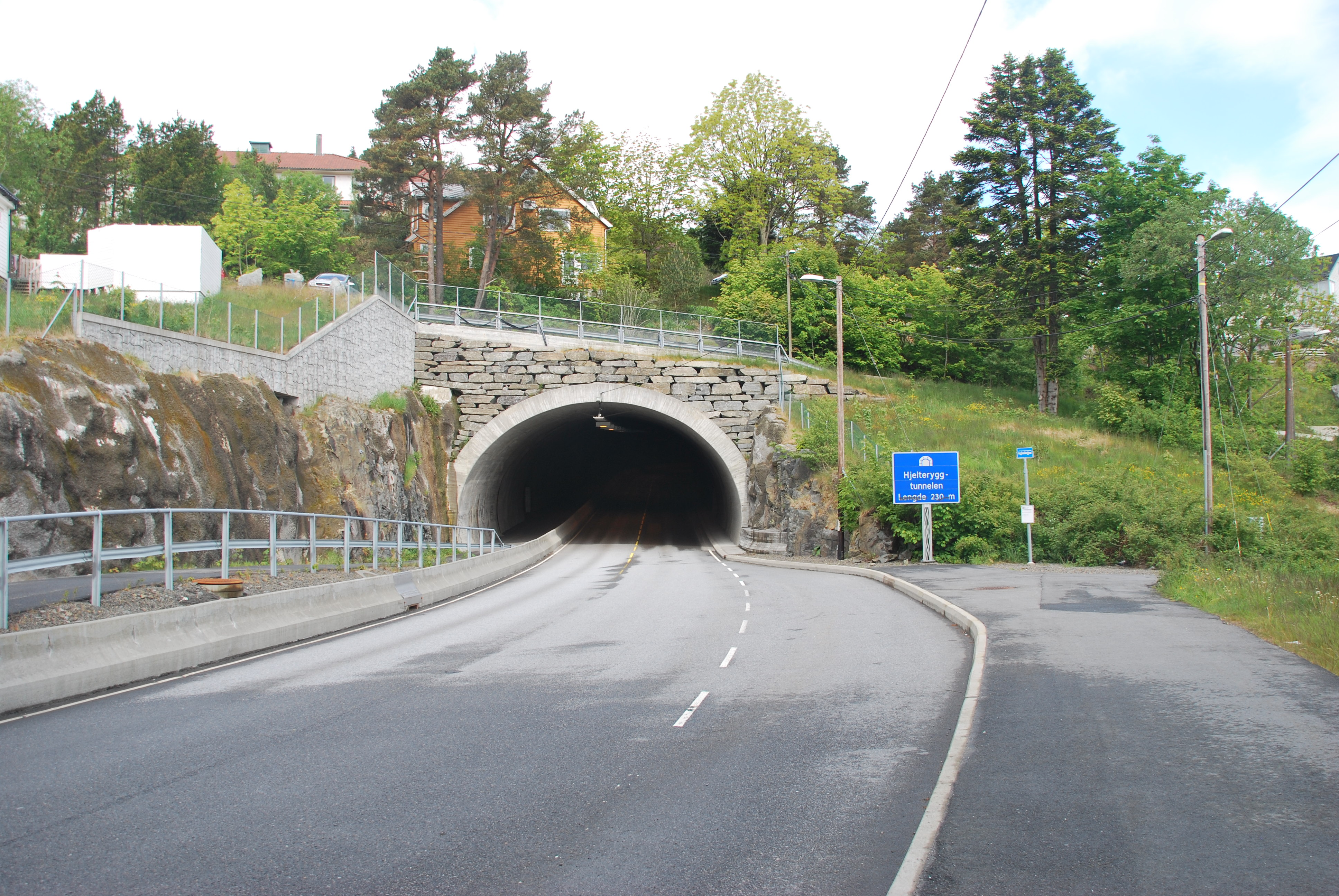 Hjelteryggtunnelen at Sotra outside Bergen city.